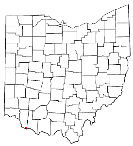 Location of Utopia, Ohio. This map was created using Paintshop. Anyone is free to use it for any purpose.